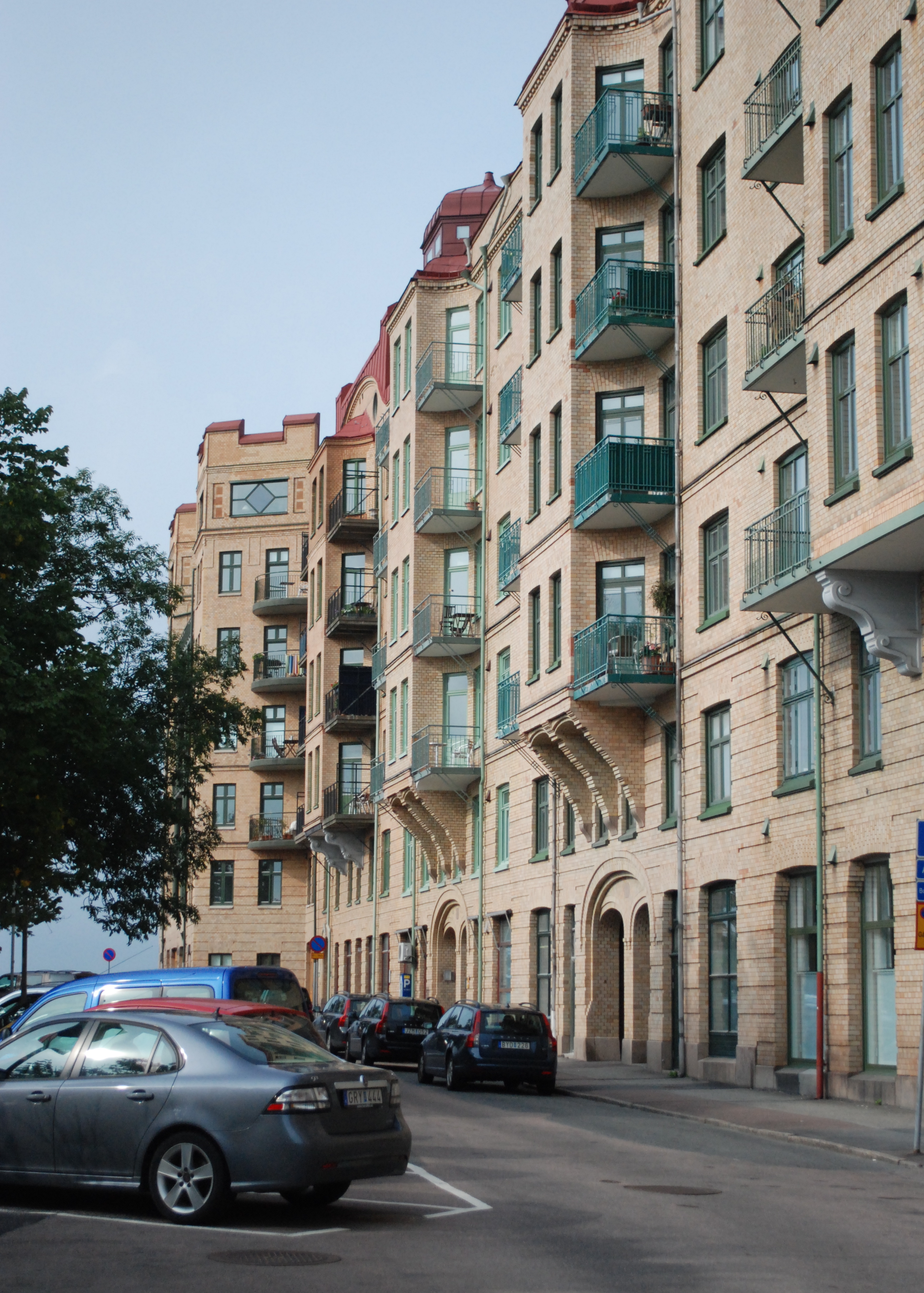 Arsenalsgatan